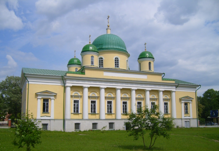 Preobrazhenskaya Church in Tula